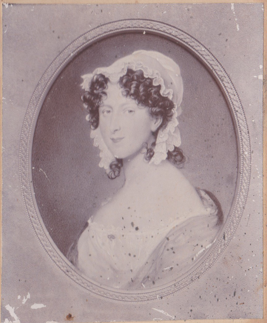 Portrait of Horatia Nelson (1801-1881), daughter of Admiral Lord Horatio Nelson and Emma, Lady Hamilton. Antique photograph of a portrait of Horatia Ward née Nelson from the Style/Ward Family collection.